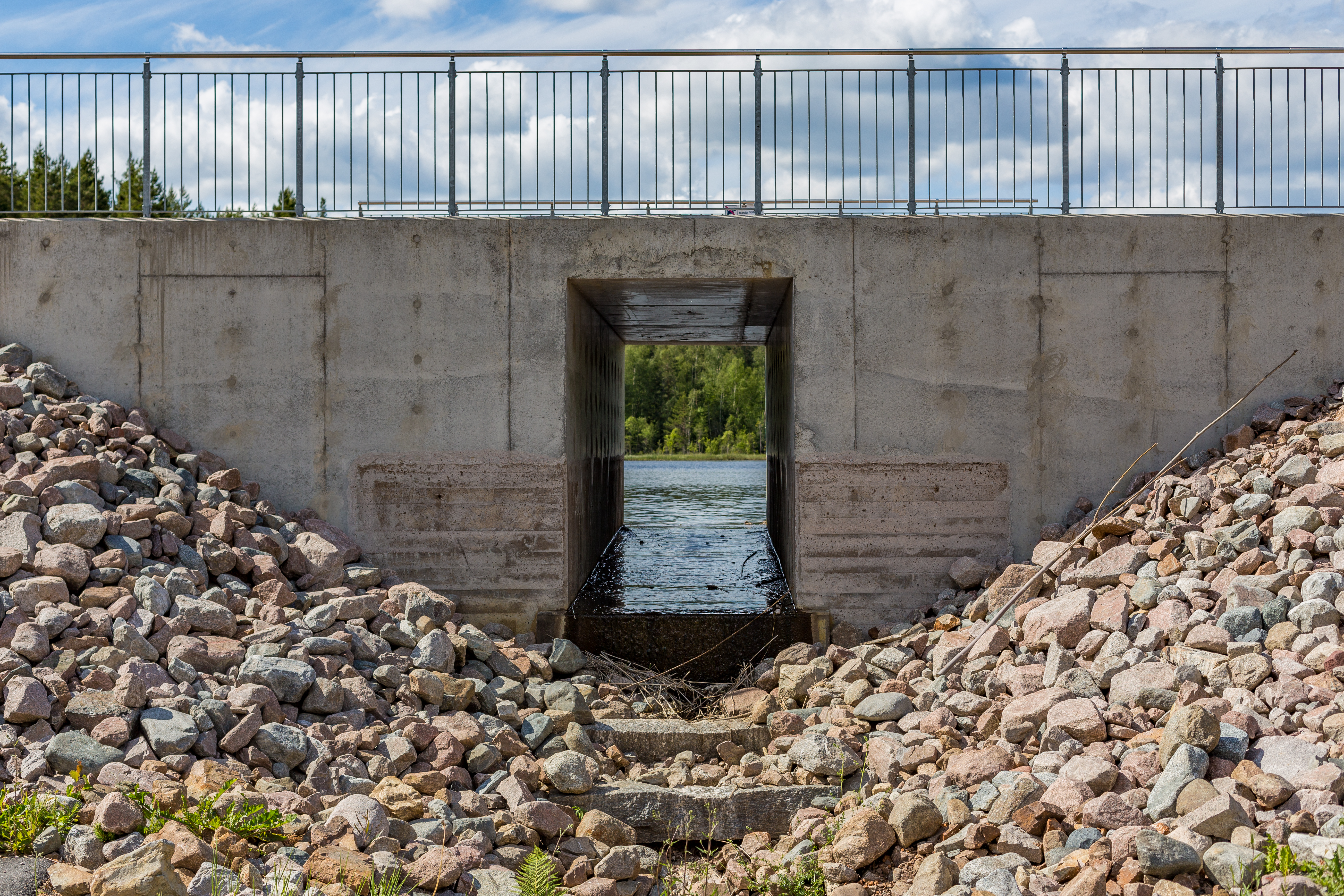 Spillway (uncontrolled) at lake/dam Kuppdammen (aka Kuppen), Garpenberg, Hedemora Municipality, Dalarna County, Sweden.